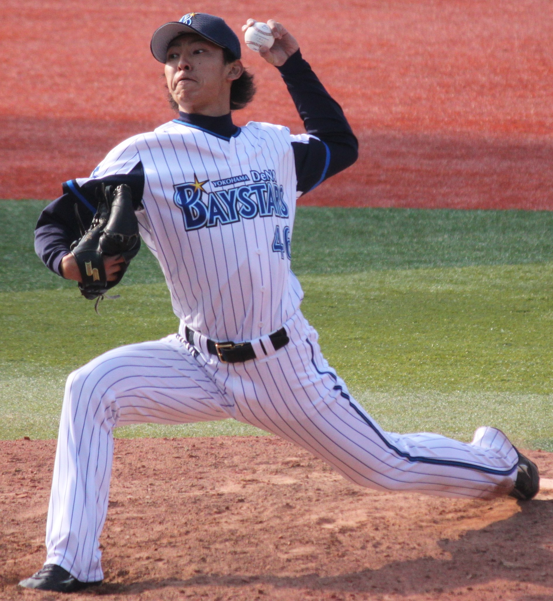 Kenjiro Tanaka, pitcher of the Yokohama DeNA BayStars, at Yokohama Stadium.